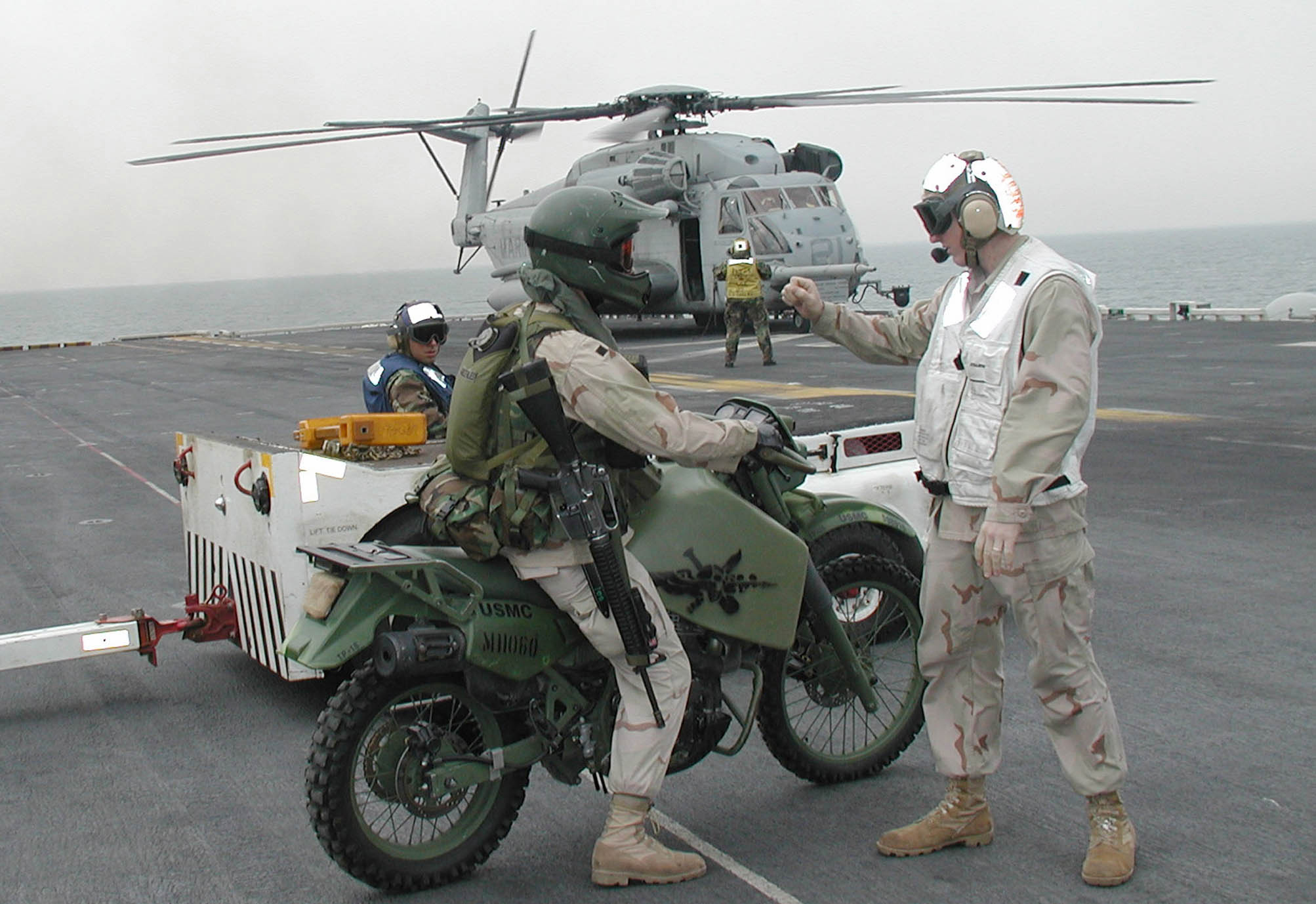 At sea aboard USS Tarawa (LHA 1) Feb. 12, 2003 -- A member of the 15th Marine Expeditionary Unit (MEU) Special Operations Capable (SOC) waits his turn to onload his motorcycle for a helicopter flight into Kuwait. The Tarawa Amphibious Ready Group arrived in the North Arabian Gulf in mid February as part of a regularly scheduled deployment. U.S. Navy photo by Photographer's Mate 3rd Class Larry Carlson. (RELEASED)